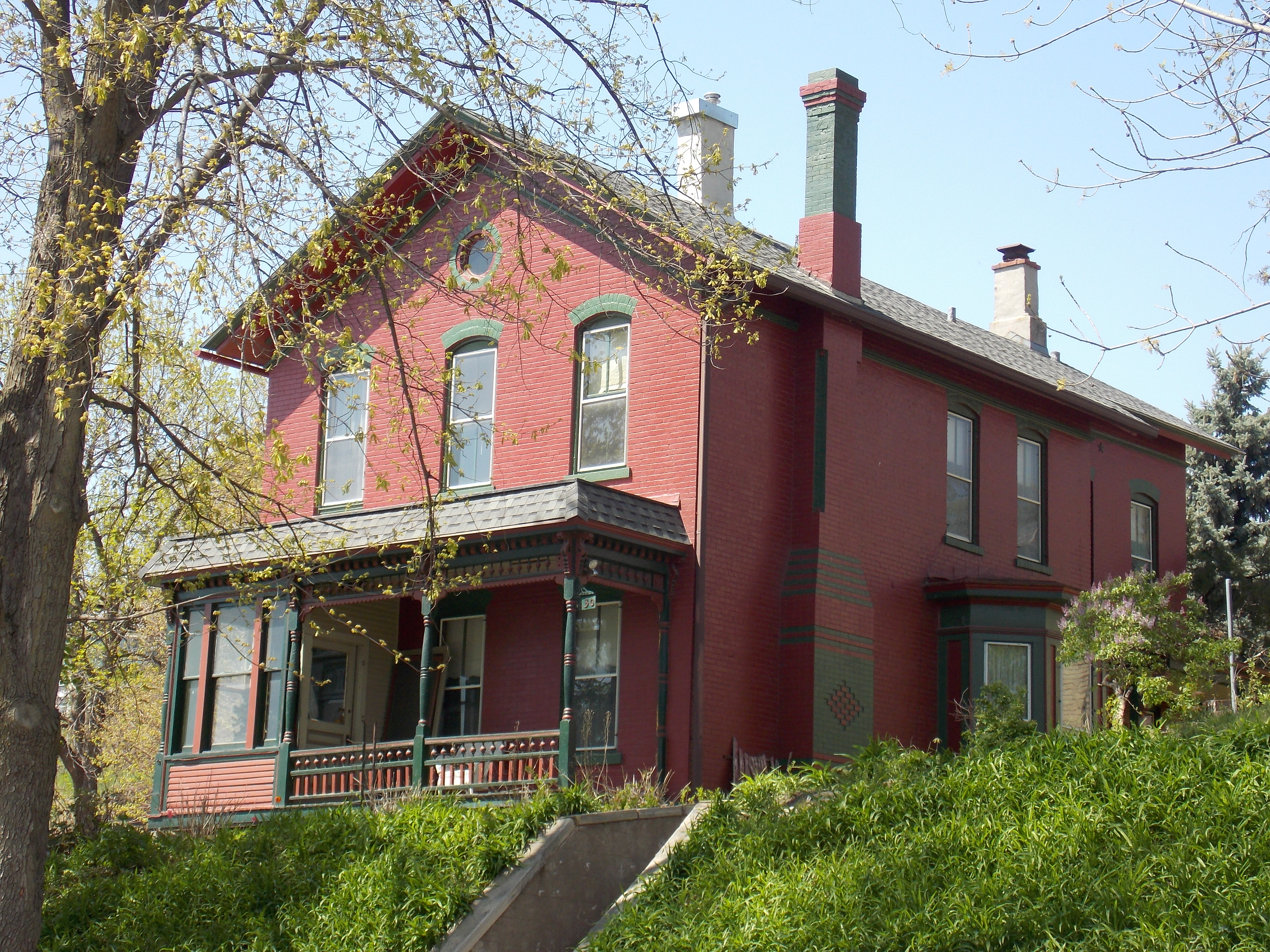 The Frederick G. Clausen House in Davenport, Iowa is a contributing property in the Hamburg Historic District.